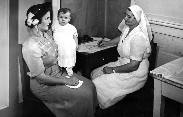 Illustrating activities of Mother and Child Welfare Service. (Maternal and child welfare)